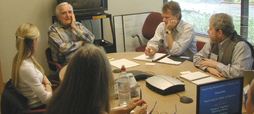 Meta-learning lab meets with Doug Engelbart